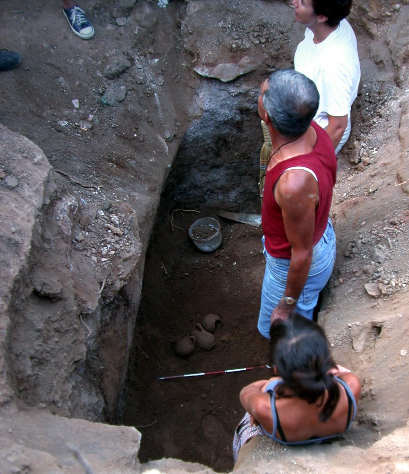 Carian tomb in :en:Beçin, :en: Milas, south-west Turkey